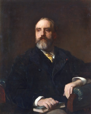 Portrait by Frank Holl (1845-1888) of the chemist and spiritualist Walter Weldon (1832-1885).